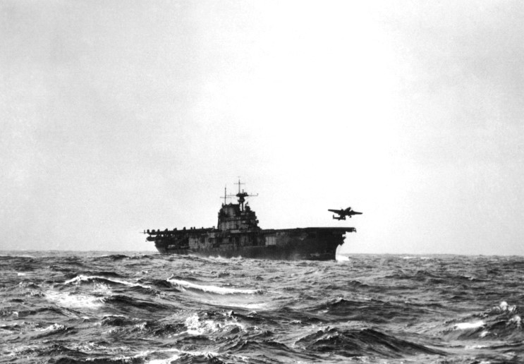 The U.S. Navy aircraft carrier USS Hornet (CV-8) launches a U.S. Army Air Forces North American B-25B Mitchell during the Doolittle Raid, 18 April 1942.